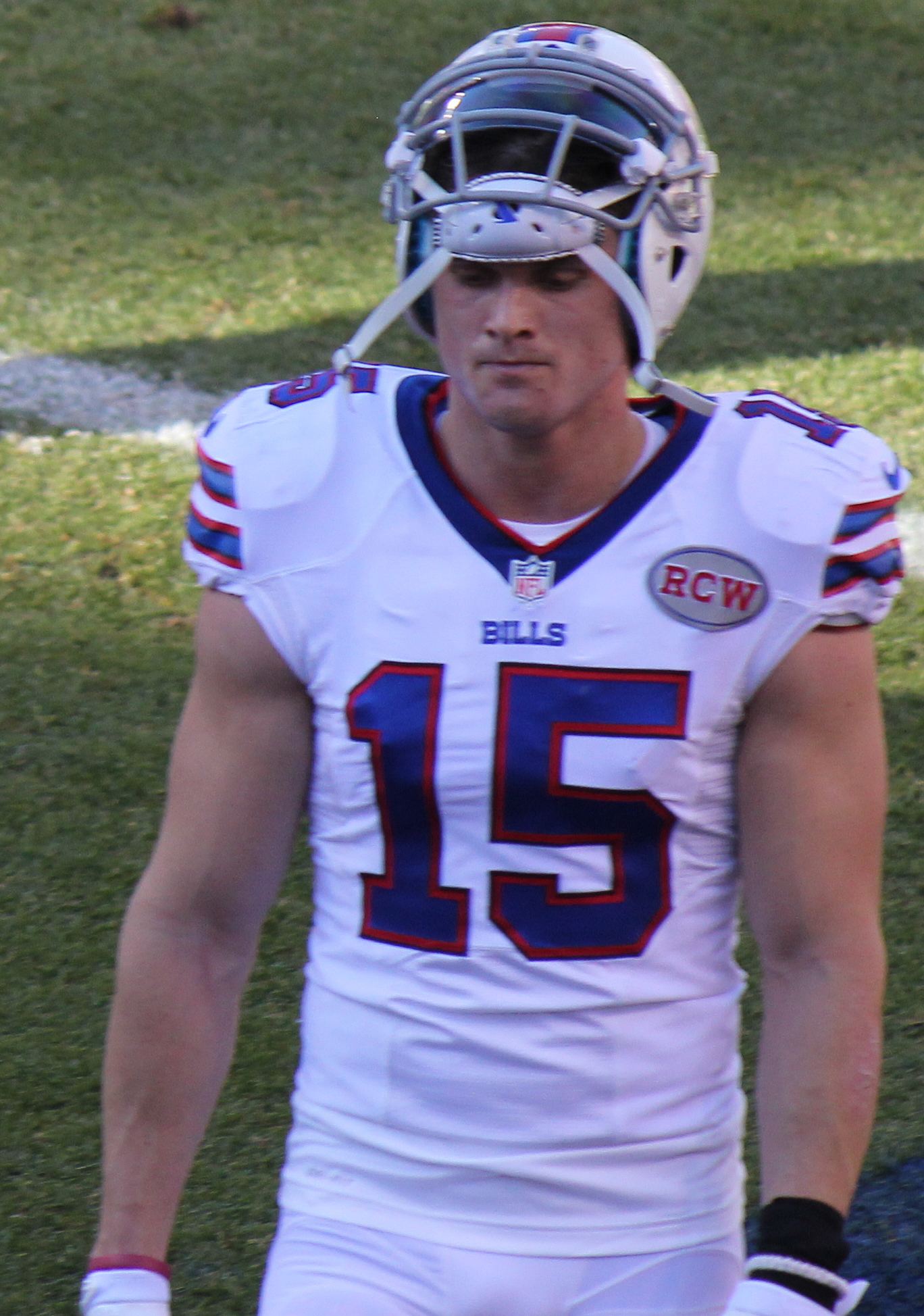 Chris Hogan, a player on the National Football League.